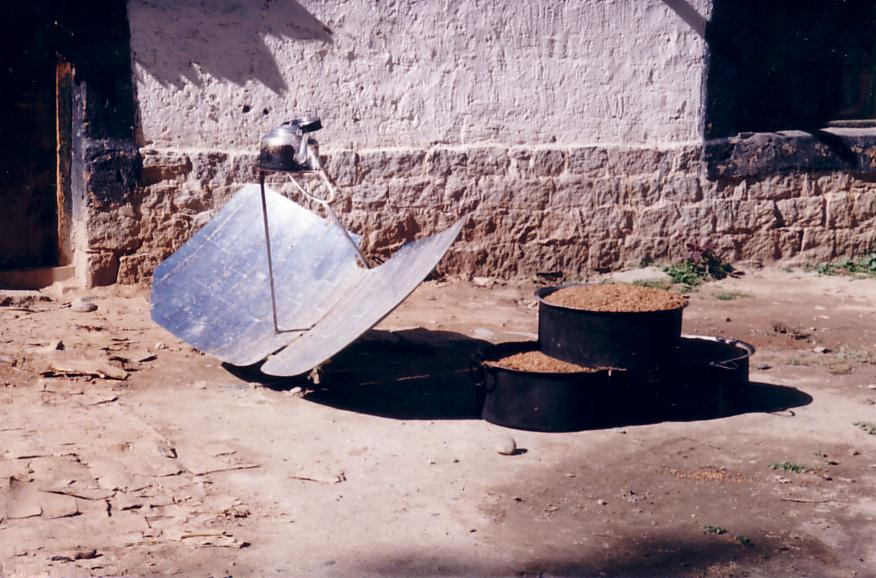 I took this photo in 1993. John E. Hill 09:25, 29 January 2007 (UTC)